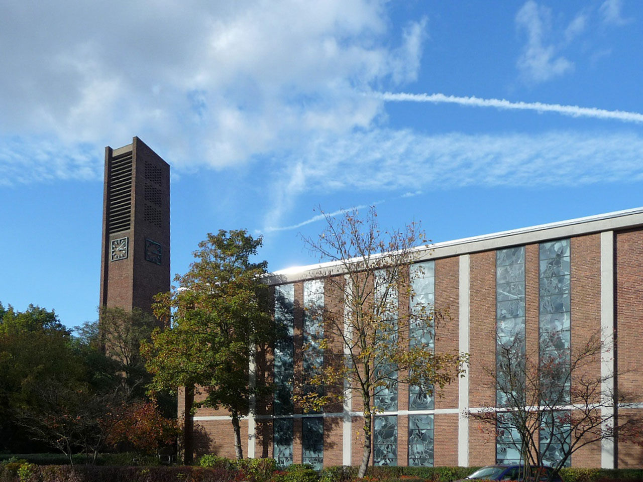 Heilig-Geist-Kirche in Bremen-Vahr